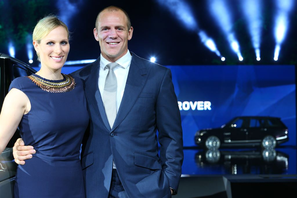 Mike Tindall and his wife Zara Phillips at the All-New Range Rover | Global Reveal